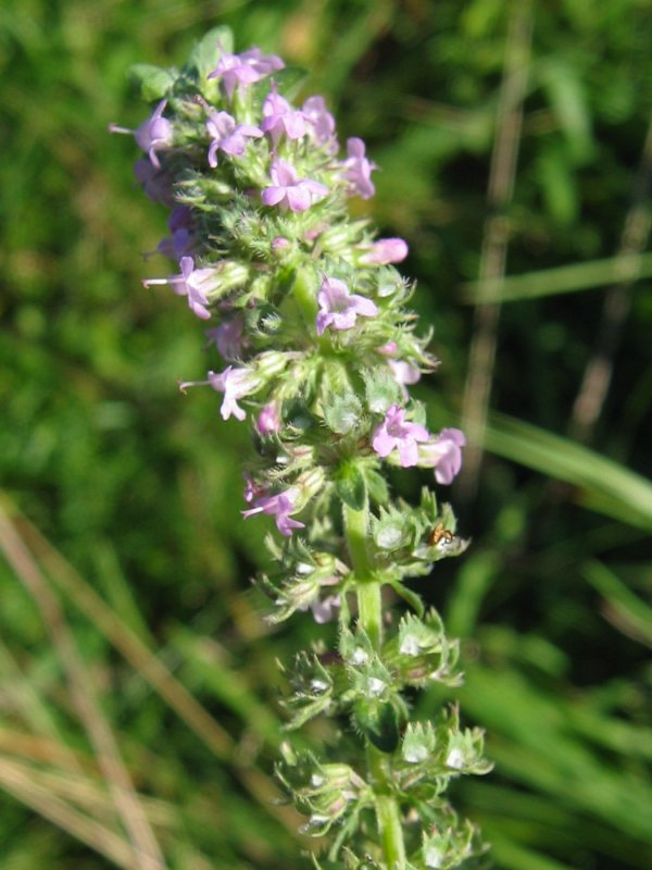 Arznei-Thymian (Thymus pulegioides)